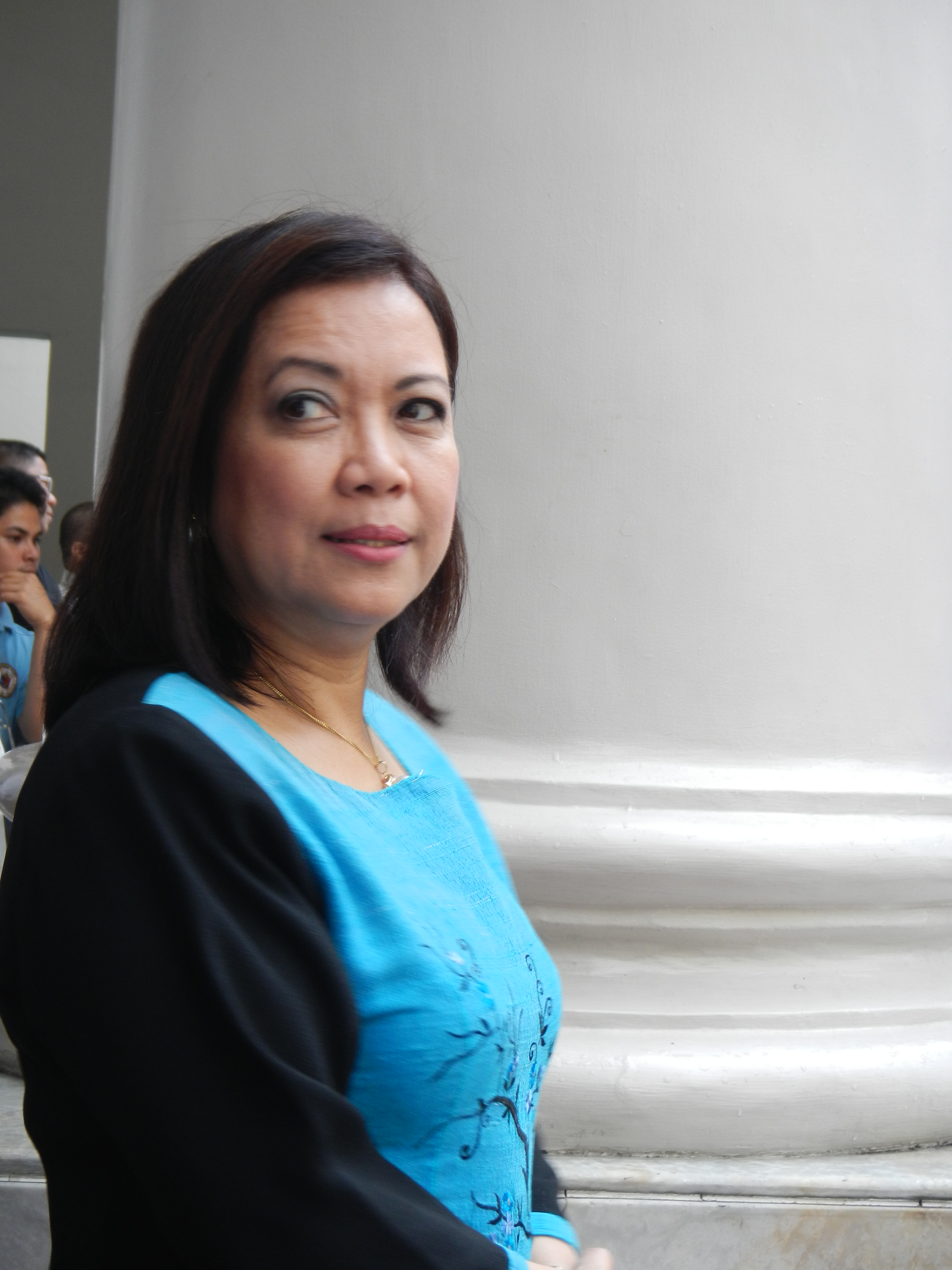 Upload Wizard photos of the - November 4, 2013, (exclusive for Wikipedia, Commons) Landmark, Historical - Supreme Court of the Philippines Eulogies [1] or Necrological service for - Andres Narvasa[2], (retired Chief Justice of the Supreme Court of the Philippines, 1991–1998 [3] [4] married to Janina Yuseco Ex-Chief Justice Narvasa given full honors at Supreme Court; Chief Justice Hilario Davide Jr. [5] and Chief Justice Maria Lourdes Sereno[6] delivered Eulogies - responded by the Narvasa family, represented by Atty. Gregorio Narvasa II; Narvasa passed away last October 31, 2013, the 112th Associate Justice of the Supreme Court on April 11, 1986; became the 19th Chief Justice of the Philippines from Dec. 1, 1991 to Nov. 30, 1998; his cremated remains will be interred November 8, 2013 at the Our Lady of Mt. Carmel Shrine Parish Church, New Manila, in Quezon City.[7] - C justices pay tribute to ex-CJ Narvasa November 4, 2013 CJ Narvasa's remains arrive at SC with full honors SC justices pay tribute to ex-CJ Narvasa Chief Justice Maria Lourdes Sereno led other Justices' tribute at the Supreme Court on Monday, November 4.Ex-Chief Justice Narvasa honored in SC - attended by - Lucas Bersamin[8], Bienvenido L. Reyes[9], Mariano del Castillo [10] and Roberto A. Abad[11], Jose Perez, Bernardo P. Pardo[12], among others.